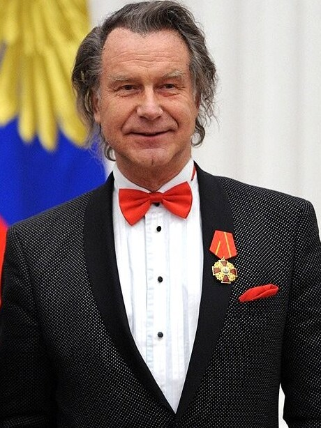 Alexander Shilov at award ceremony. Moscow, Kremlin. 29 Oct 2013.